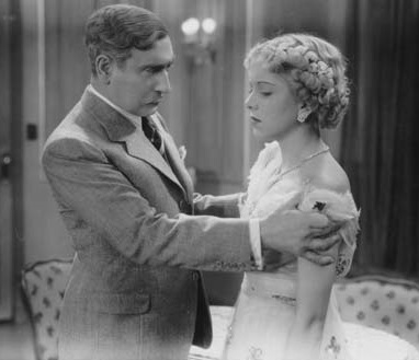 Cantando nació el amor-película argentina de 1938